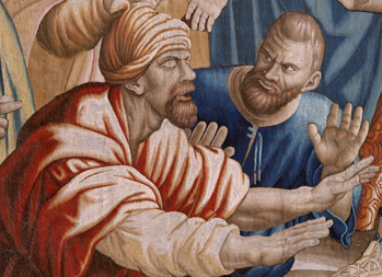 Flemish tapestry. Series Acts of the Apostles. Elymas struck blind (La ceguera de Elymas). Seventh tapestry in the series. Model Cartoon by Rafael Sanzio. 1519. Manufacture Jan Raes II, Brussels. Ca 1605-1629. Fabric Silk and wool. Size 534 x 783 cm. Location Royal Palace of Madrid. Origin Collection of Philip III. On display Hall of Columns. . Tapiz Flamenco; Serie Hechos de los Apóstoles; La ceguera de Elymas; Séptimo paño de la serie; Modelo Cartón de Rafael Sanzio, 1519; Manufactura Jan Raes II, Bruselas, h. 1605-1629; Materia Seda y lana; Medidas 534 x 783 cm; Situación Palacio Real de Madrid; Procedencia Colección de Felipe III; Exposición Salón de Columnas. Madrid. Palacio Real. Comunidad de Madrid, Madrid. Spain. Cultural heritage; Cultural heritage|Monuments|Palace; Cultural heritage|Techniques|Tapestry; Europe|Spain; Europe|Spain|Comunidad de Madrid; Europe|Spain|Comunidad de Madrid|Madrid; Europe|Spain|Comunidad de Madrid|Madrid|Madrid. Rafael Sanzio. . Flamenco; Serie Hechos de los Apóstoles; La ceguera de Elymas; Séptimo paño de la serie; Modelo Cartón de Rafael Sanzio, 1519; Manufactura Jan Raes II, Bruselas, h. 1605-1629; Materia Seda y lana; Medidas 534 x 783 cm; Situación Palacio Real de Madrid; Procedencia Colección de Felipe III; Exposición Salón de ColumnasMadridPalacio RealComunidad de Madrid, MadridSpainCultural heritage; Cultural heritage|Monuments|Palace; Cultural heritage|Techniques|Tapestry; Europe|Spain; Europe|Spain|Comunidad de Madrid; Europe|Spain|Comunidad de Madrid|Madrid; Europe|Spain|Comunidad de Madrid|Madrid|MadridRafael Paul M.R. Maeyaert; Ref PM_071103_E_Zamora